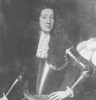 James Johnstone, 2nd Marquess of Annandale (c1687-1730)